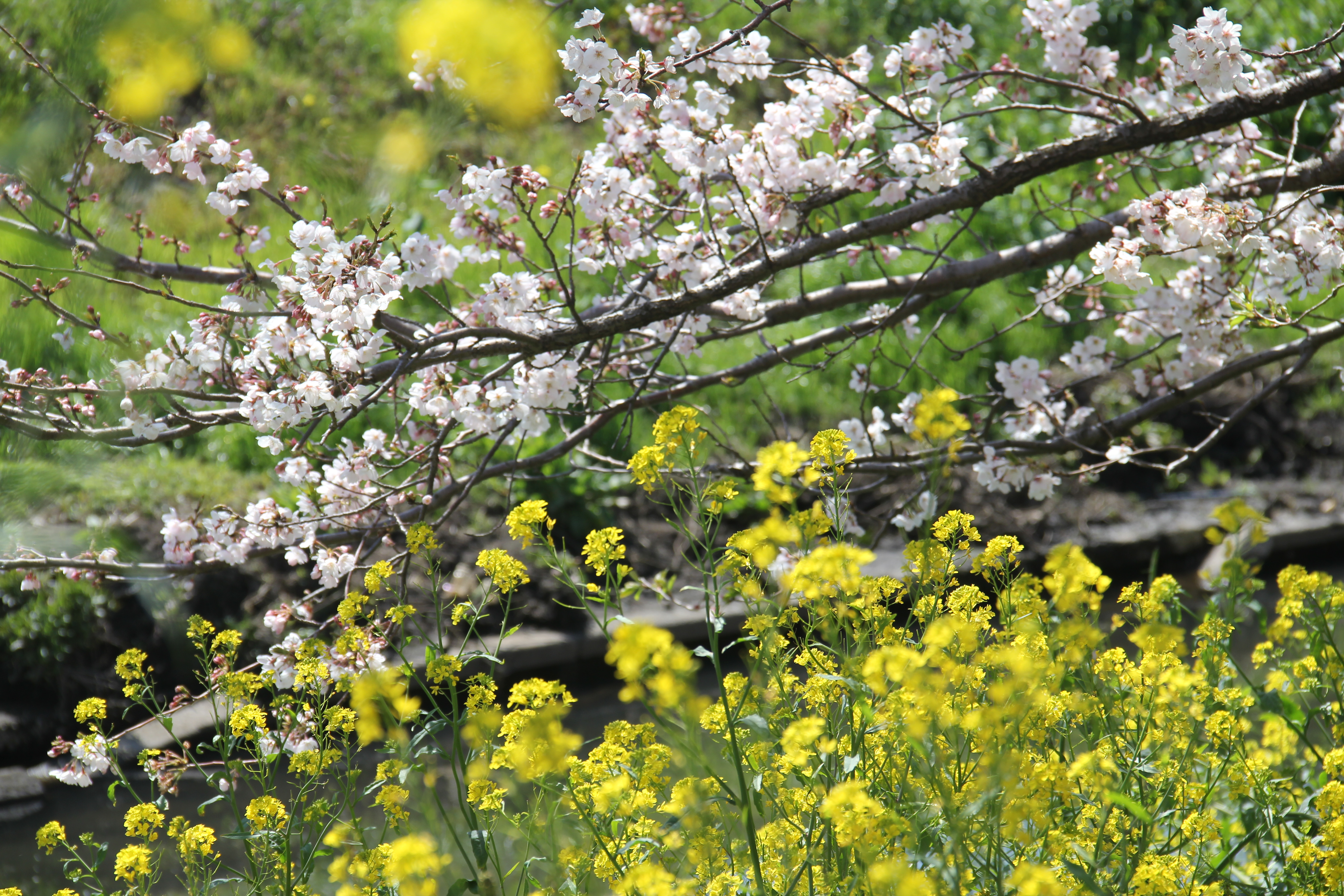 Hara,Numazu-shi, Shizuoka Prefecture, Japan